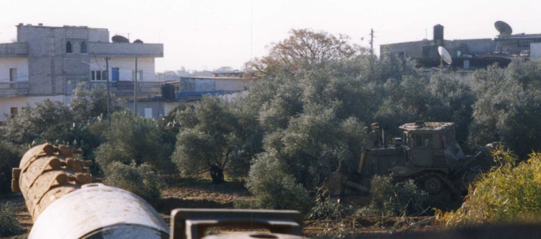 IDF Caterpillar D9 bulldozer working in Al-Bureij refugee camp, central Gaza Strip.